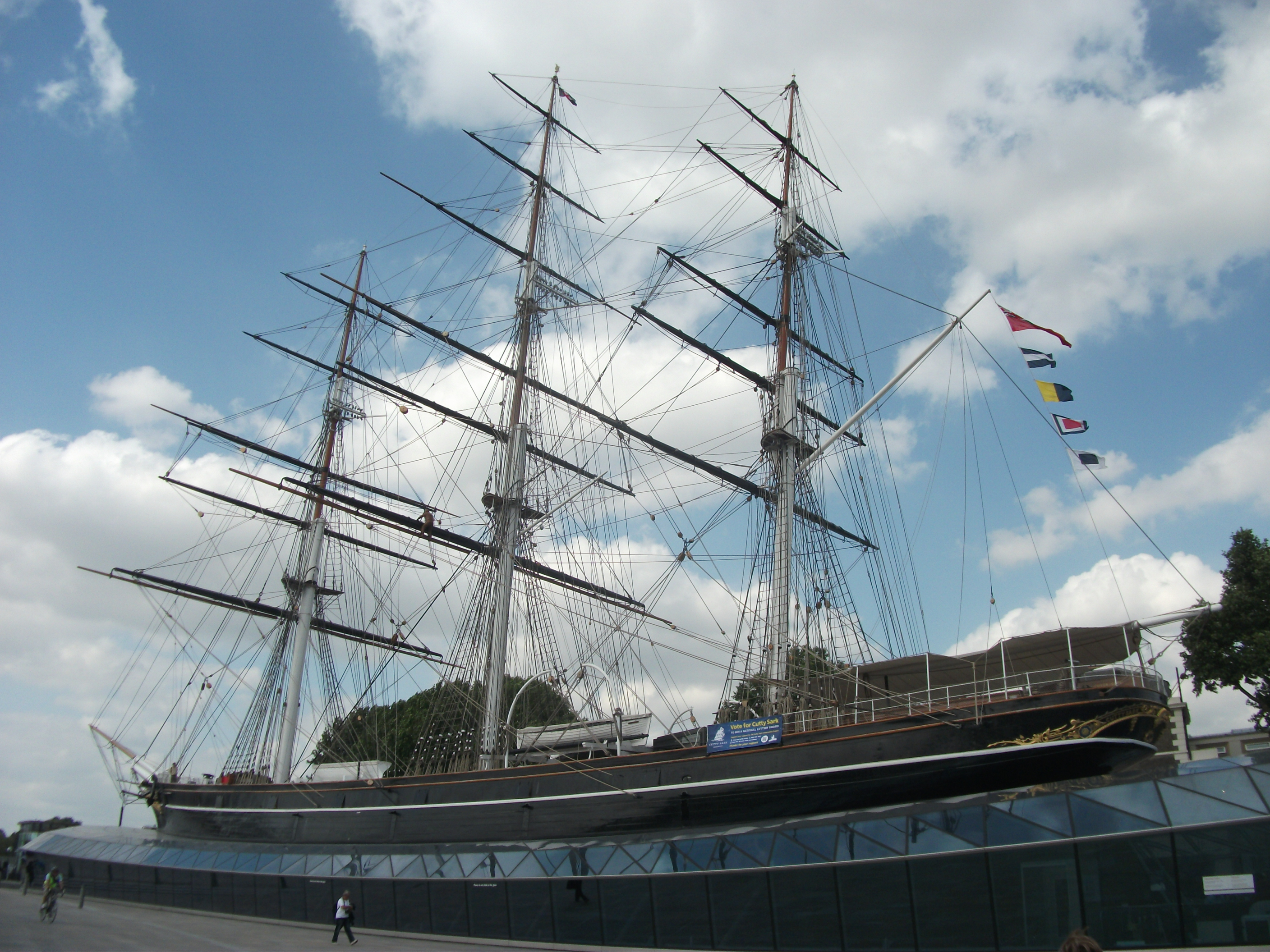 The Cutty Sark in Greenwich, London, UK